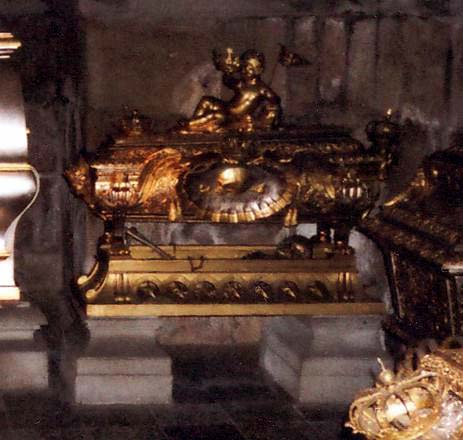 Grave of Prince Ulric of Sweden (1684-1685) in the crypt of Caroline Chapel at Riddarholm Church Place: Stockholm, Sweden